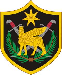 U.S. Army Element of Multi-National Force - Iraq Shoulder Sleeve Insignia Description: On a black shield with a 1/8 inch (.32 cm) gold border 2 ½ inches (6.35 cm) in width and 3 inches (7.62 cm) in height overall two crossed silver scimitars points down with scarlet grips, superimposed in base by a wreath of palm in proper colors joined at the bottom with three loops of brown twine, overall a gold human-head winged bull of Mesopotamia, all below a gold seven pointed star. Symbolism: The star represents a vision of unity for the seven peoples of Iraq (Sunni, Shia, Kurd, Turkoman, Assyrian, Yazidi, Armenian) leading to a more secure, prosperous and free future for Iraqis. The crossed scimitars of the insignia recall the partnership between Multinational Forces and Iraqi Security Forces essential to bringing a democratic way of life to Iraq. The palm fronds symbolize peace and prosperity for a new nation. The colossal statue of the Mesopotamian human-headed winged bull recalls the rich heritage of Iraq and underscores strength and protection for the people of Iraq. Background: The shoulder sleeve insignia was approved on 7 January 2005. The insignia was amended to change the symbolism on 24 February 2005.